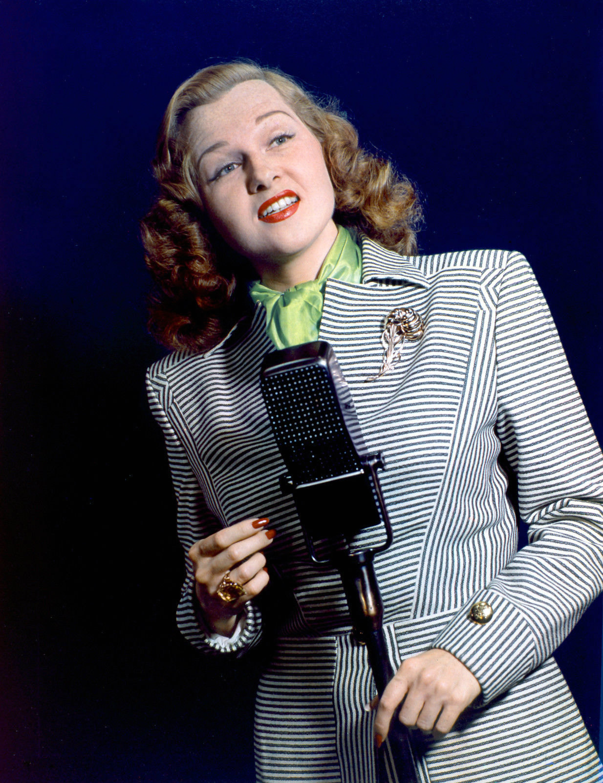 Photo of Jo Stafford from The New York Sunday News.